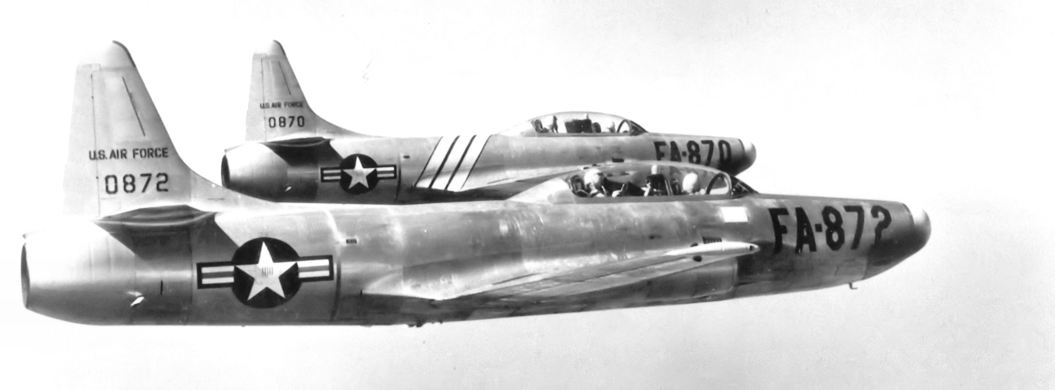 59th Fighter-Interceptor Squadron F-94B Otis AFB 1952 Two F-94Bs flying over Cape Cod. Lockheed F-94B-1-LO Starfire 50-870 and 50-872 870 marked as commander's aircraft